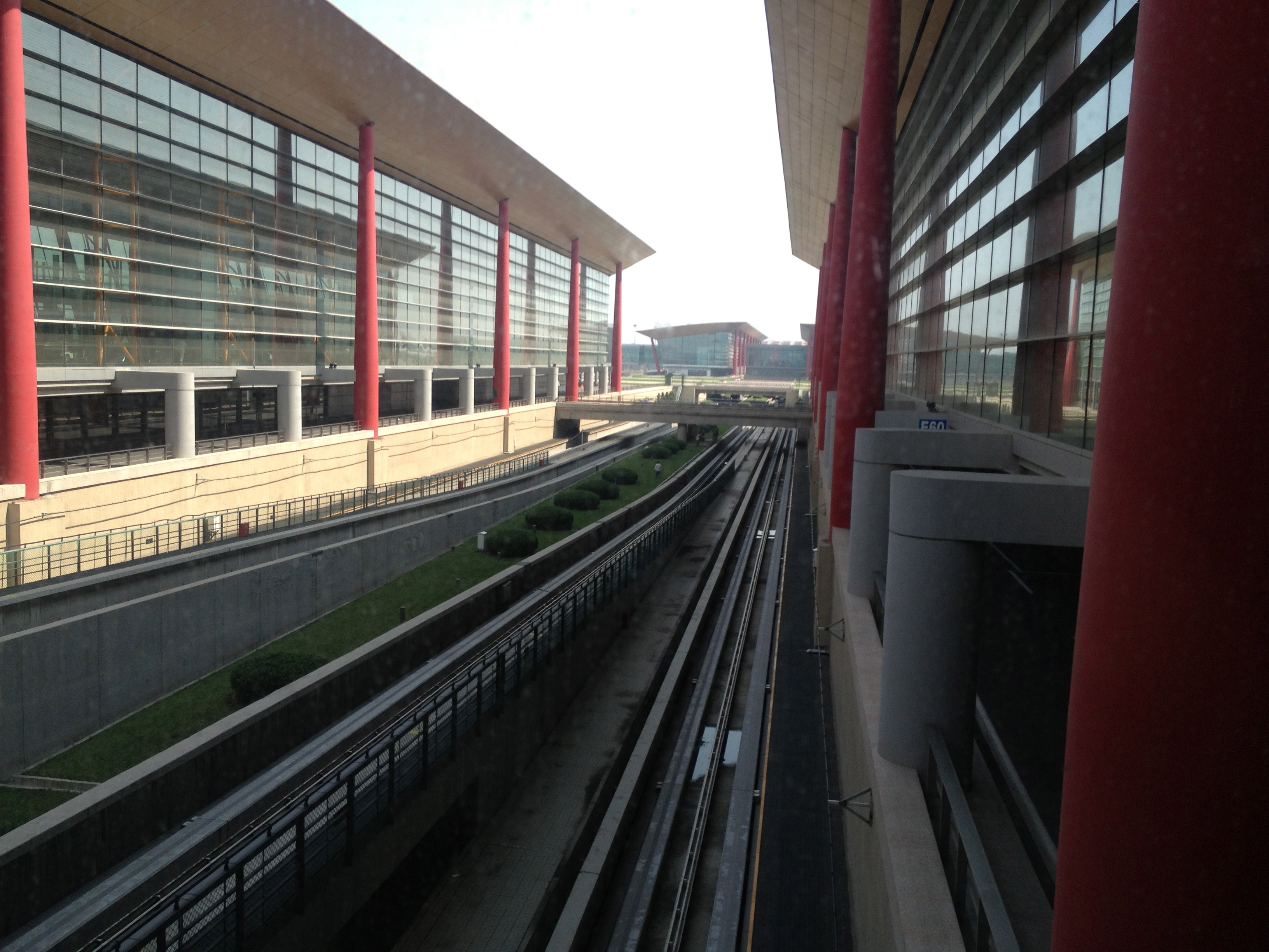 the Rail of MRT system used in Beijing Capital International Airport